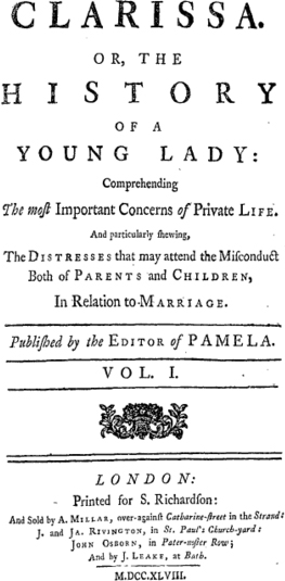 Title page of :en:Samuel Richardso